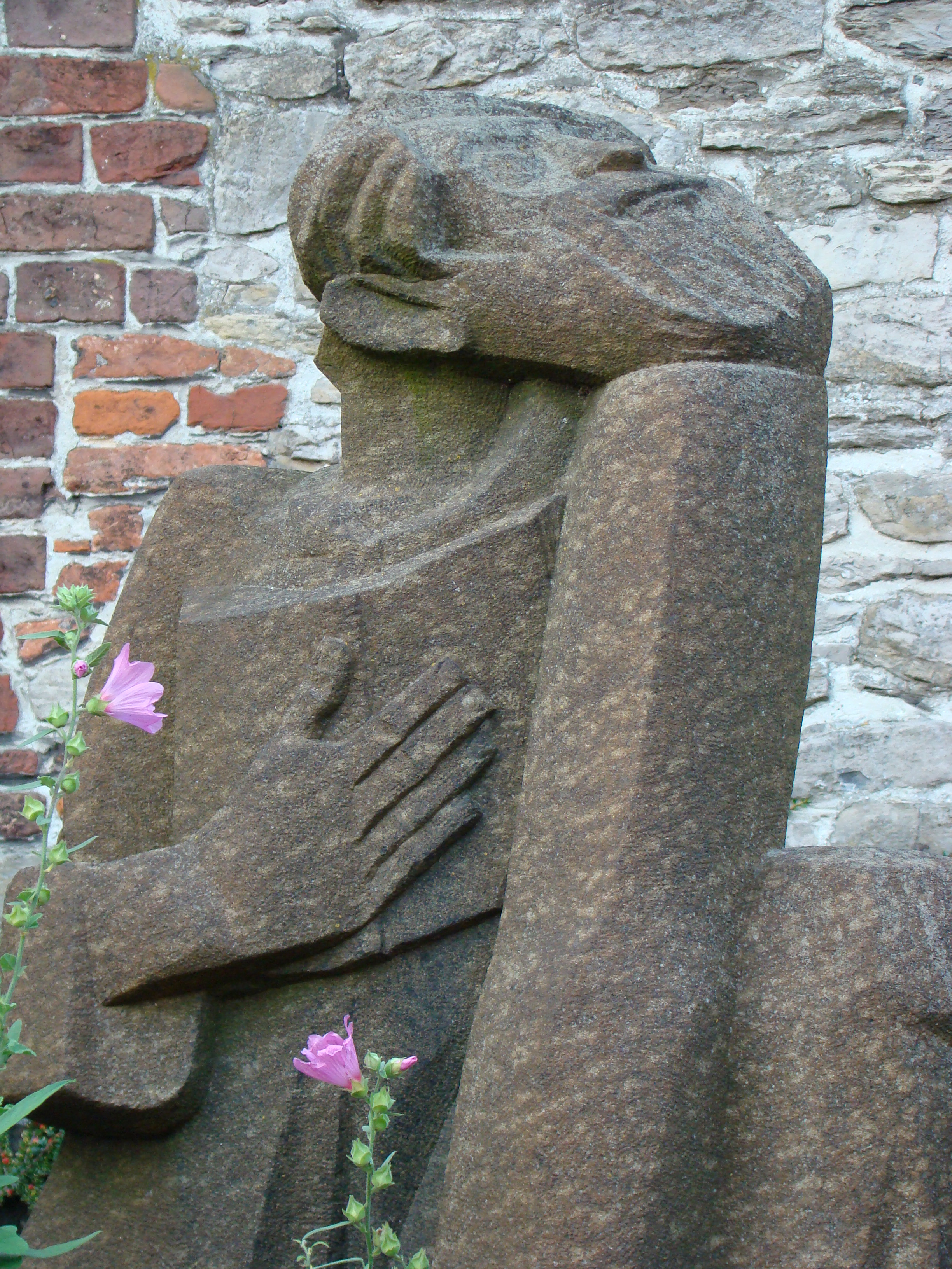 Memorial Deerlijk (West Flanders, Belgium)